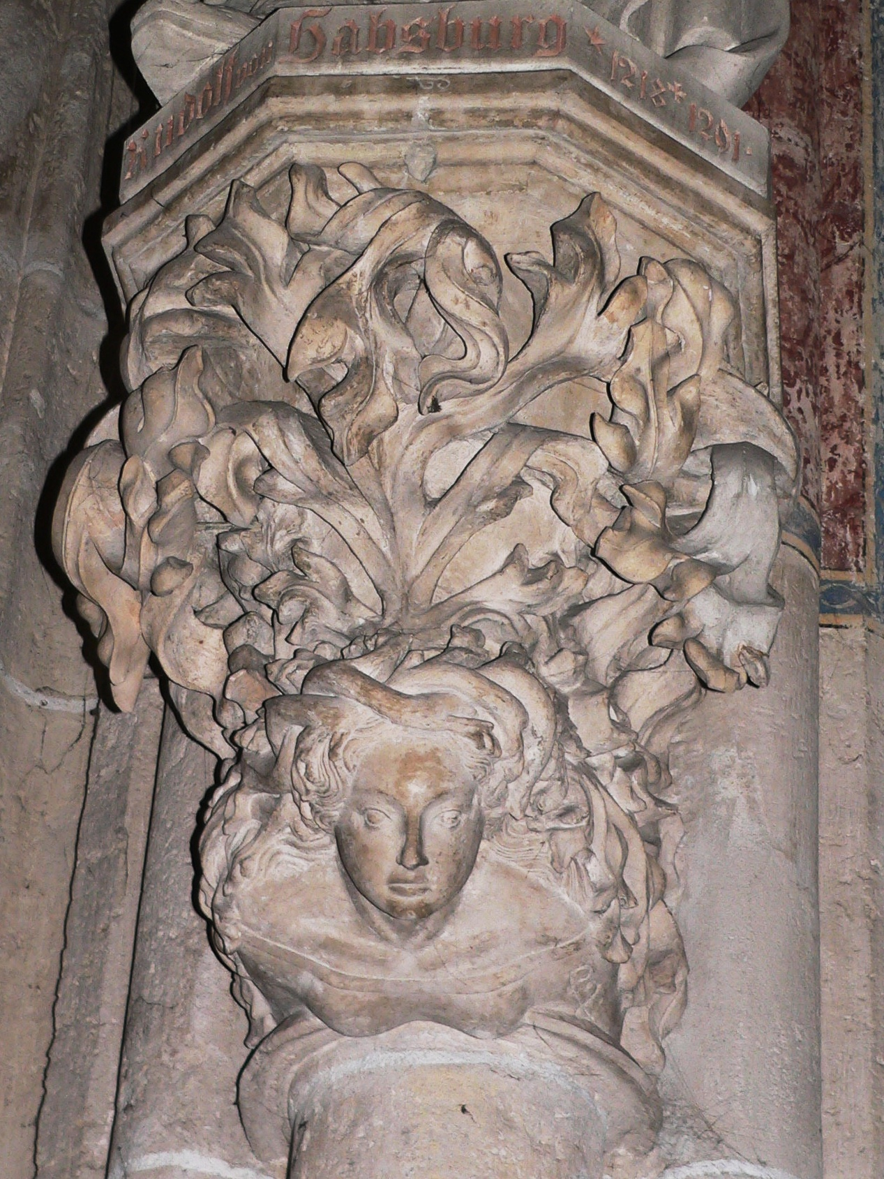 The Lutheran cathedral "Ulm Münster" of Ulm/Germany, corbel of the Stonecutter (the so called "Reißnadelmeister") near the pulpit, the sign of this master were two crossed scriber (right below the picture)